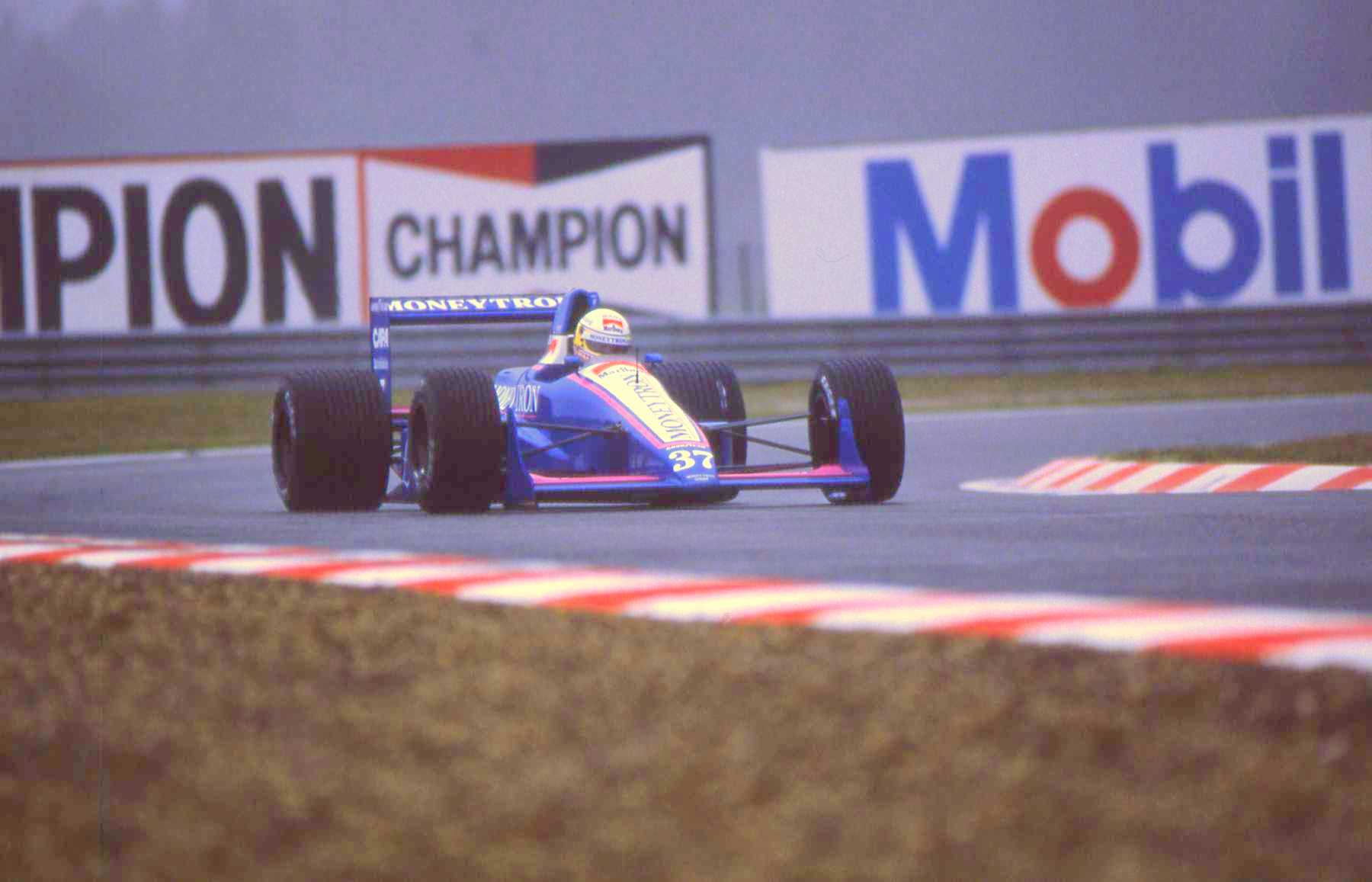 Bertrand Gachot - Onyx-Ford. Scan diapo argentiqure